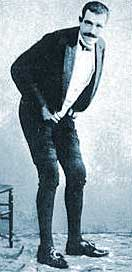 Joseph Pujol (known as "Le_Petomane" - "the fart maniac") at the concert (ca. 1890). He was a French entertainer famous in Victorian times for being able to break wind at will.